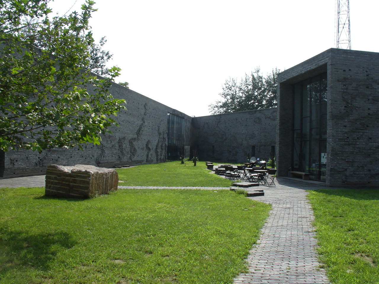 A south facing photo of the Three Shadows Photography Art Centre in Caochangdi, Beijing, China. Architects: FAKE Design.